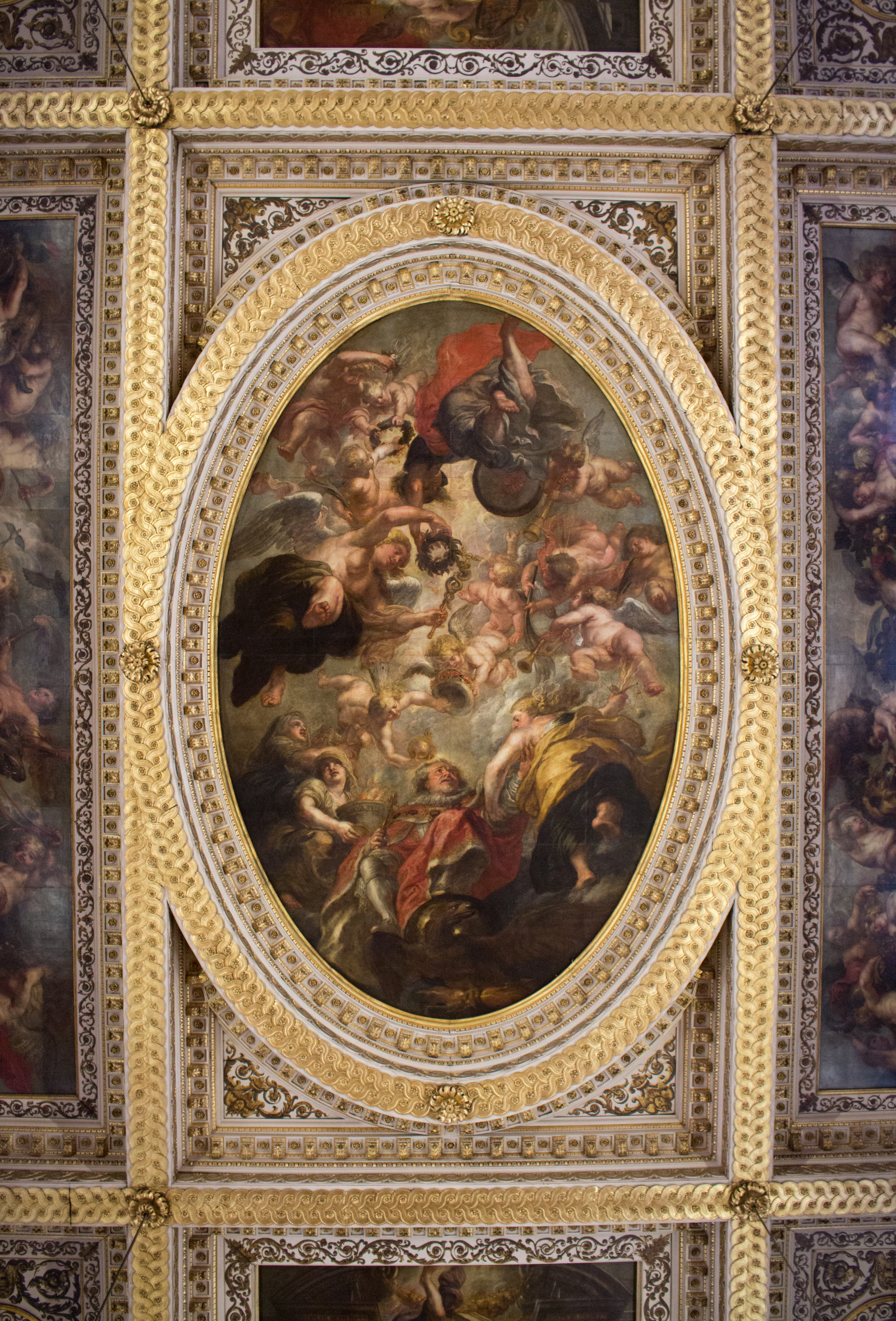 Ceiling by Peter Paul Rubens BANQUETING HOUSE Wikidata has entry Q642039 with data related to this building.